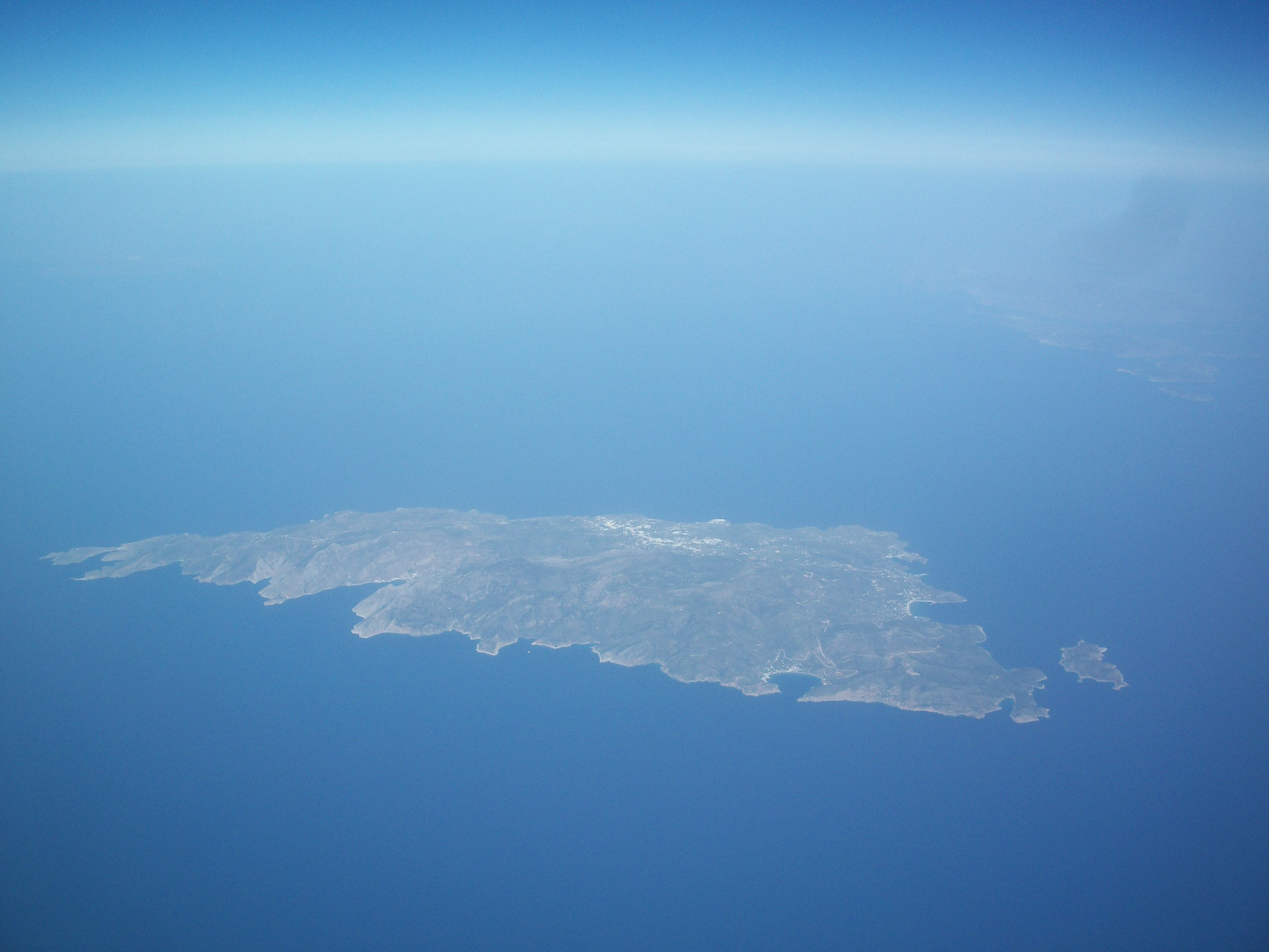 Sifnos island airview from west. Altitude around 9 km. The atmosphere was quite dusty and as a result there is a white belt on the horizon